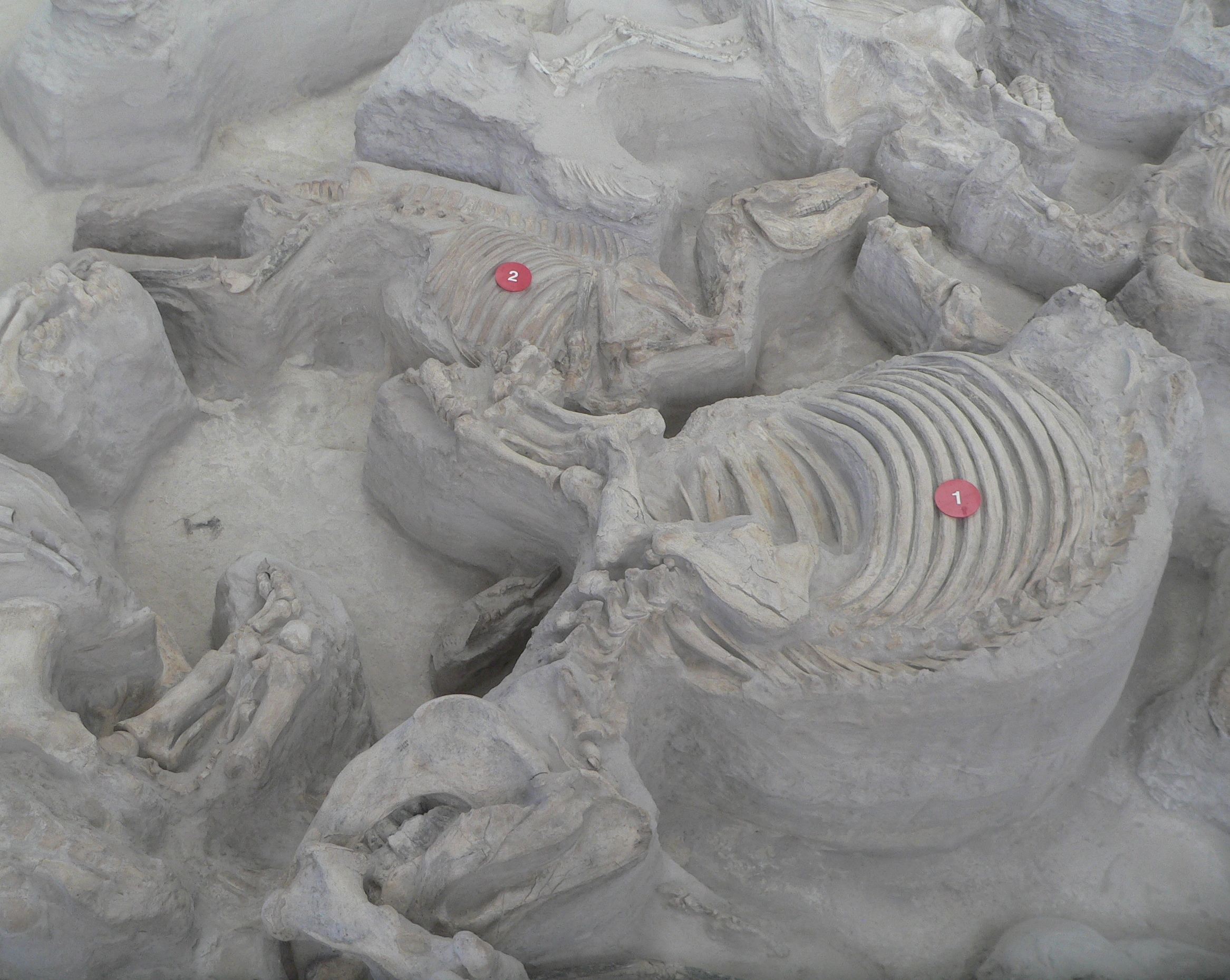 Ashfall Fossil Beds in Antelope County, Nebraska. According to nearby signs, the "1" marker is on a young adult Teleoceras major, nicknamed "Tusker"; its estimated age is 8-9 years, with wisdom teeth beginning to come in; the femur across its face (near the bottom of the photo) was probably taken from a neighboring carcass by a large predator. The "2" marker is on the remains of a three-toed horse, Cormohipparion occidentale.